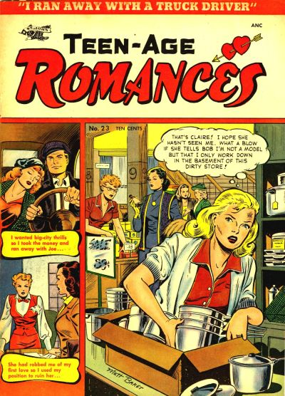 Front cover of Teen-Age Romances #23